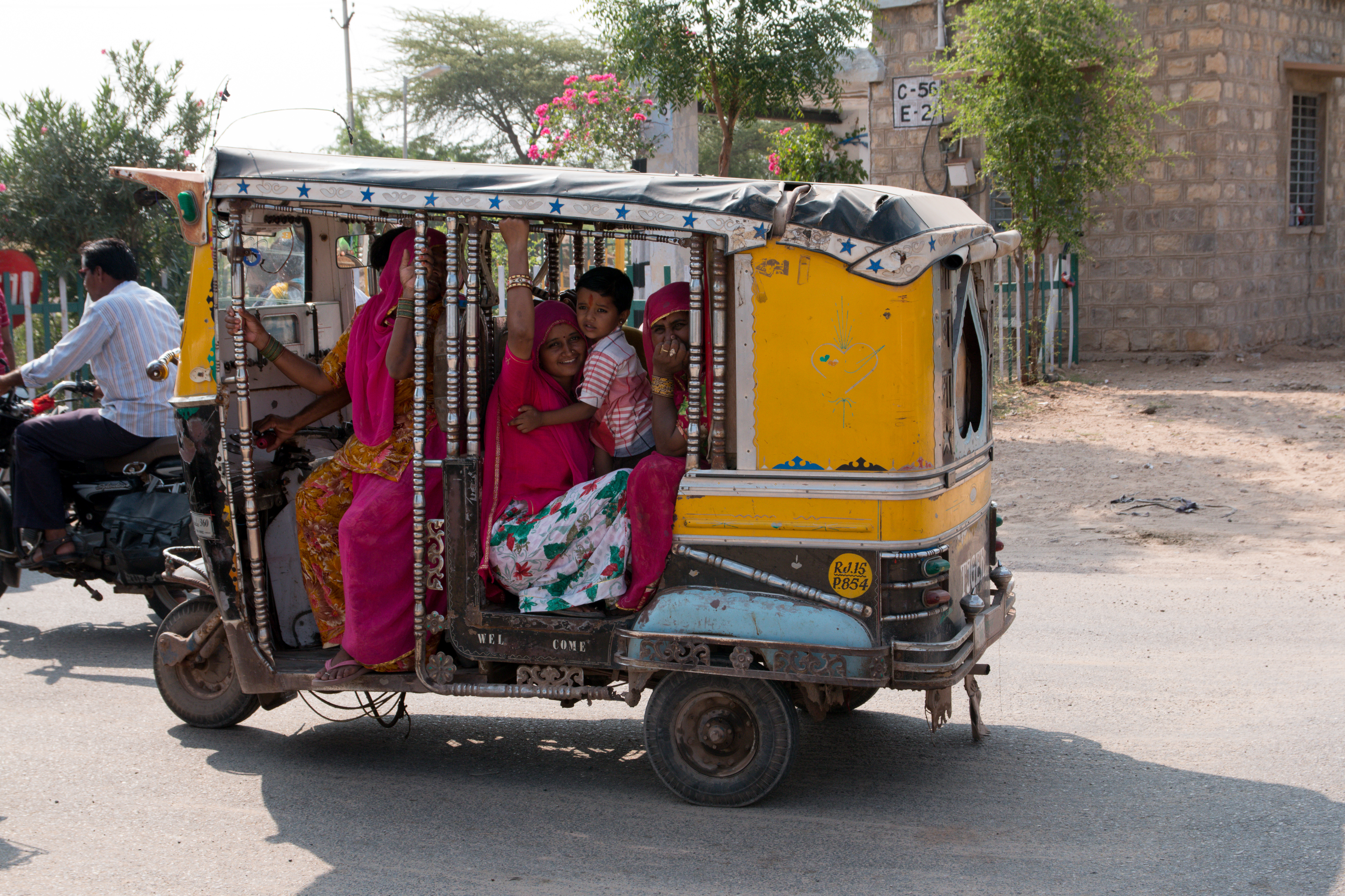 Tuk-tuk waitind at the level croissing